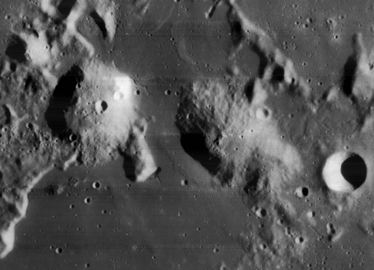 Mons Gruithuisen Gamma (left) and Delta (right), volcanoes on the moon. Width of the image is approximately 75 km.